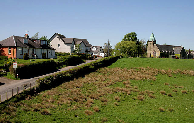 Drumclog Memorial Kirk